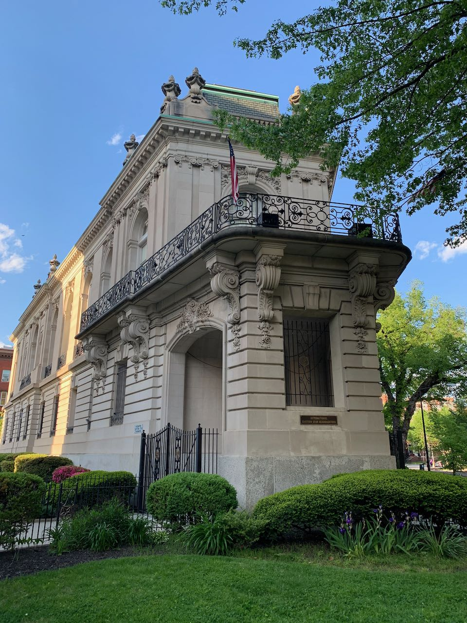 The Perry Belmont House (1909) seen from the intersection of 18th Street and New Hampshire Avenue, NW.